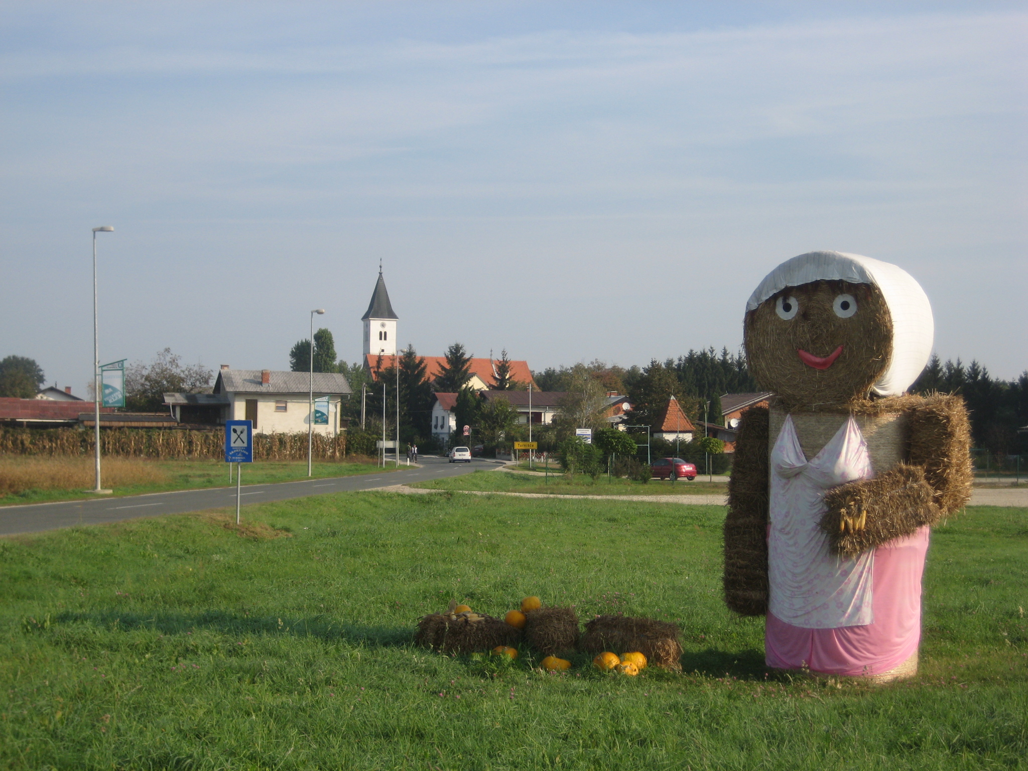 Turnišče, village in Slovenia